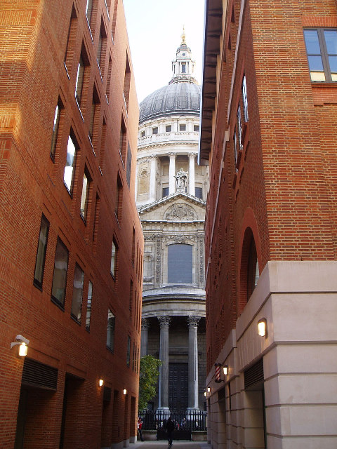 Saint Pauls Cathedral as seen from Paternoster Row. Paternoster Row disappeared in the post-war rebuilding of the area around Saint Paul's. It was lost under the big, ugly office blocks that blighted the area surrounding the cathedral for decades. Restored during the rebuilding of Paternoster Square, it offers one of the best views of Saint Paul's. The street gets its name from the monks of the medieval St Paul's who would walk down this passageway chanting the Lord's Prayer.